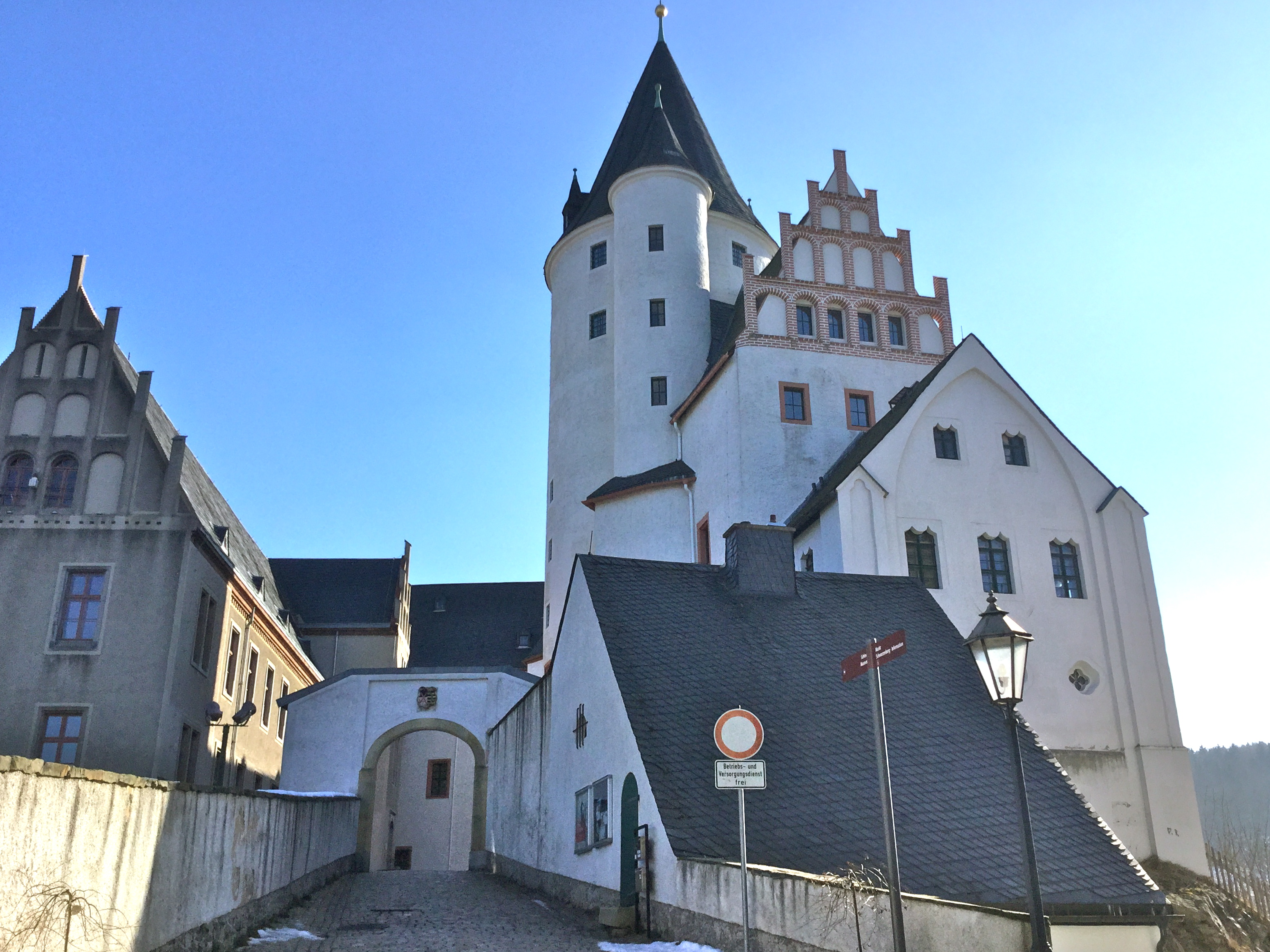 Burg Schwarzenberg (Erzgeb,)